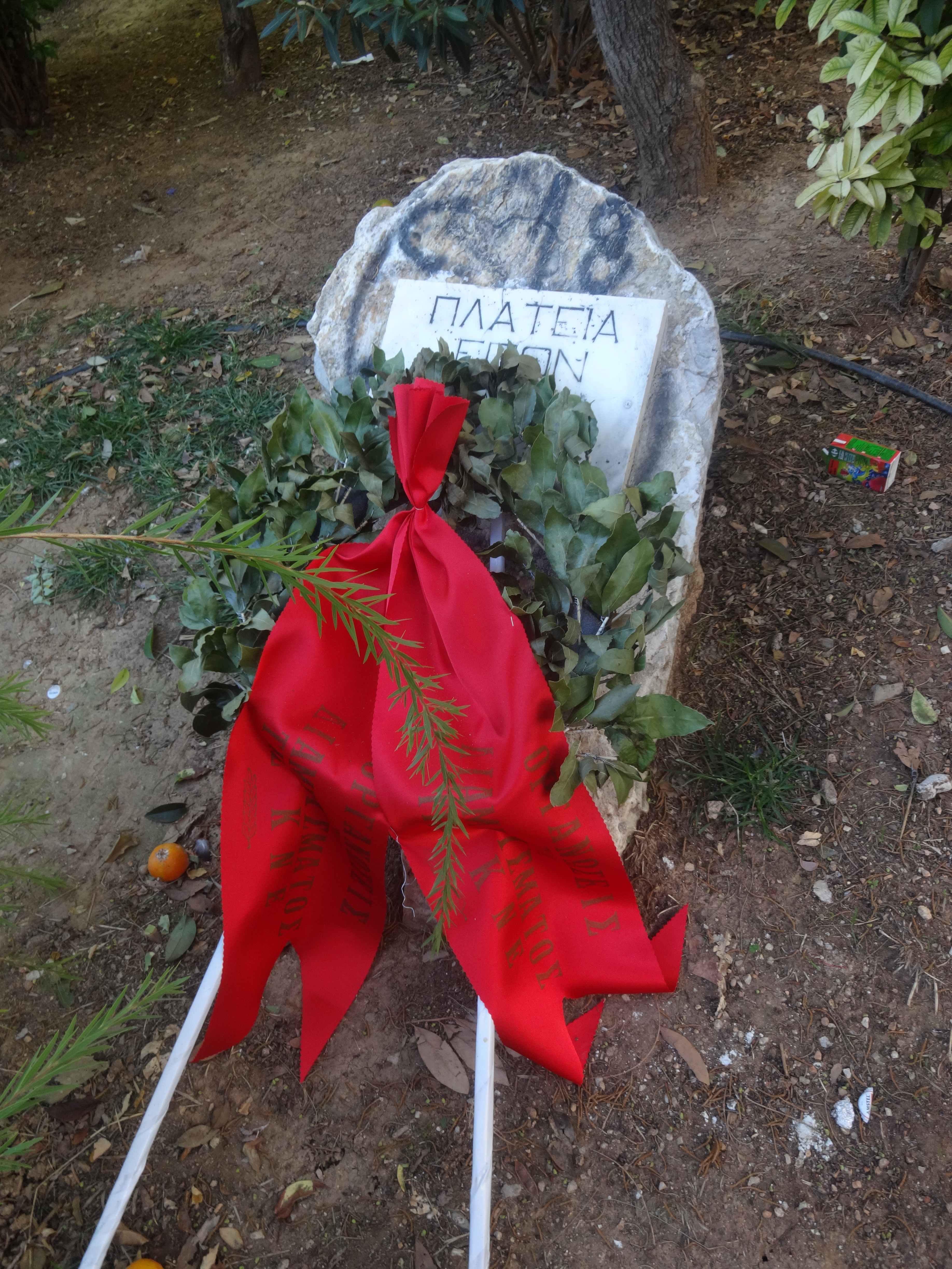 Wreath laid by the Communist Youth of Greece (KNE) on the square bearing the name of of United Panhellenic Organization of Youth (EPON)